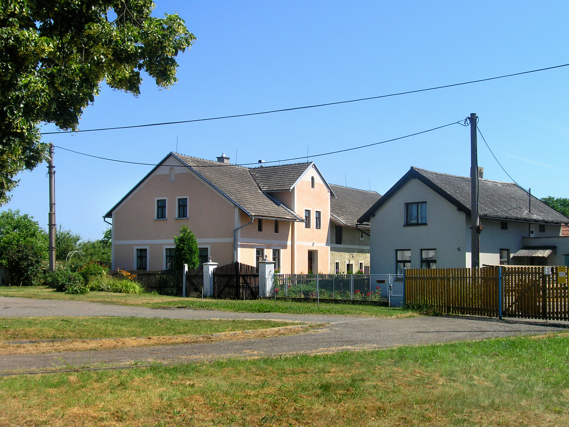 Ptýrovec, part of Ptýrov village, Czech Republic